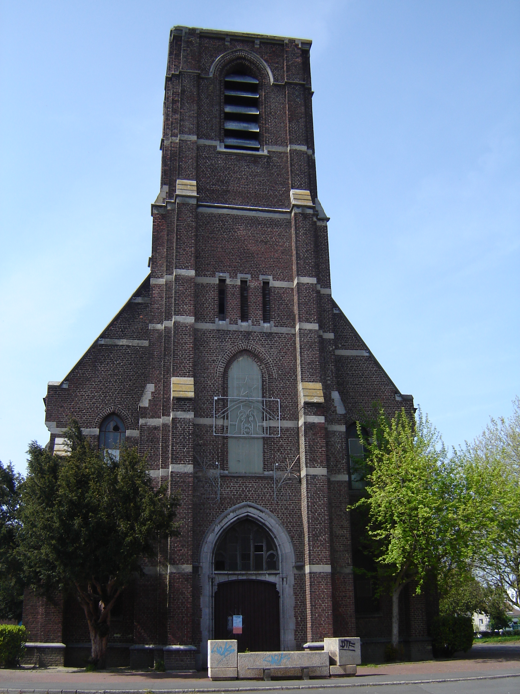 Eglise Notre-Dame du Bon Conseil, in the Beaulieu quarter in Wattrelos. Wattrelos, Nord, Nord-Pas-de-Calais, France